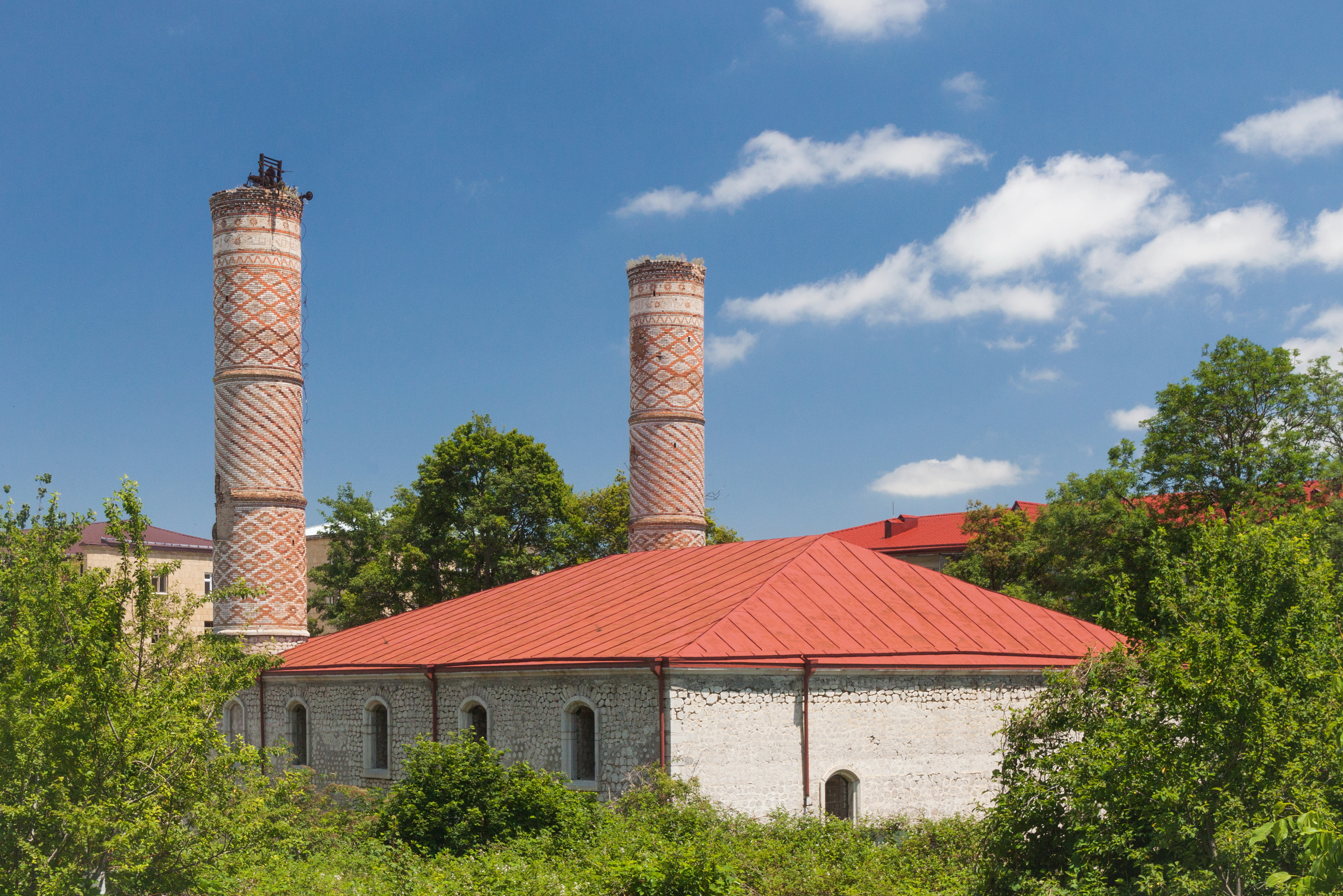 Yukhari Govhar Agha Mosque. Shushi/Shusha, Nagorno-Karabakh.